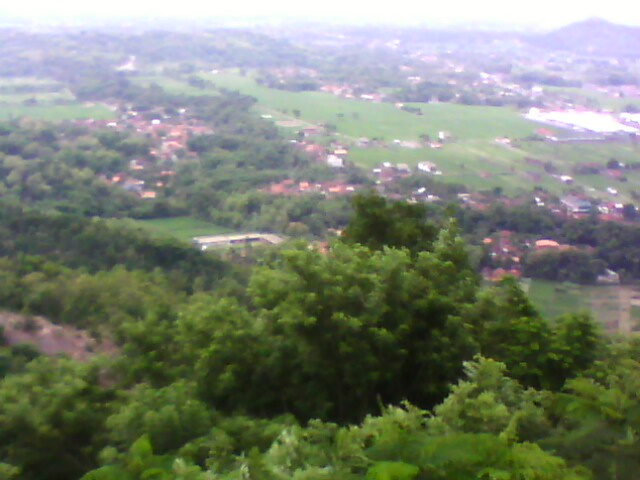 bukit bintang Gunungkidul